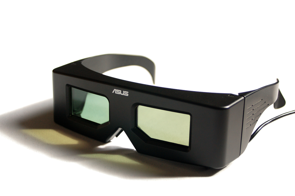 liquid crystal shutter glasses used for ASUS graphics cards of the GeForce 2 series in 2001.